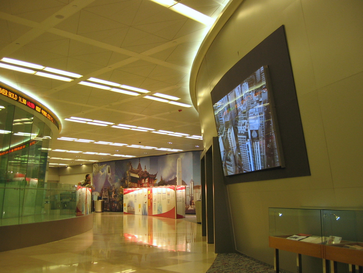 Exchange Exhibition Hall Interior